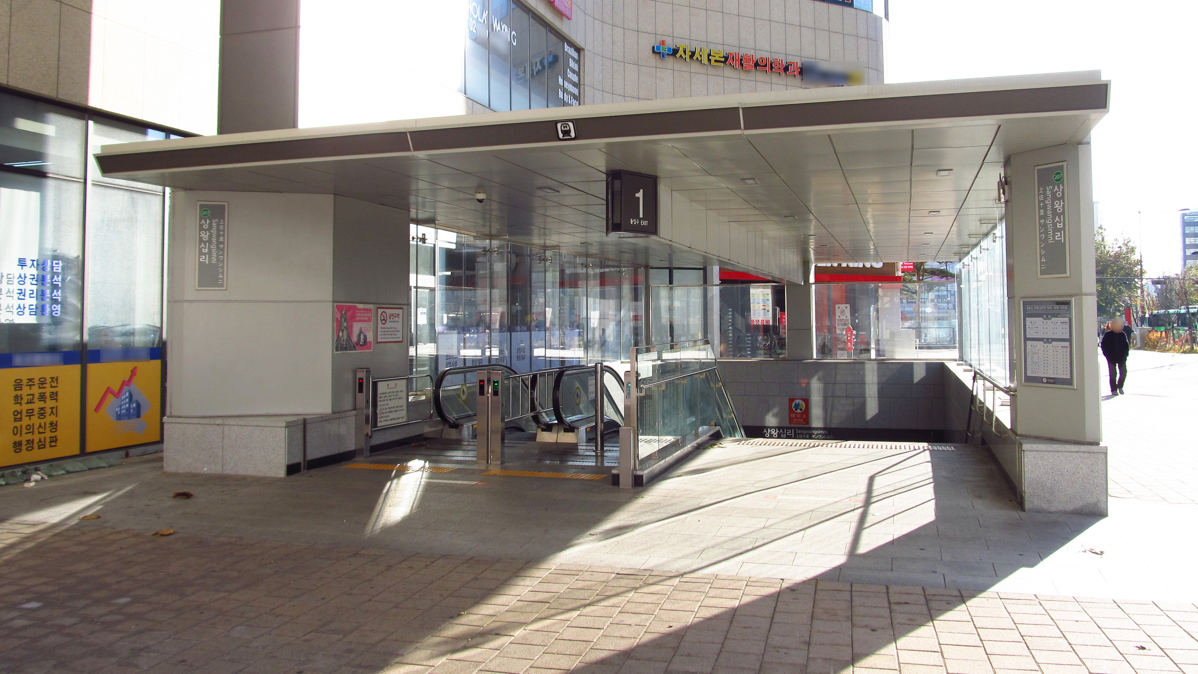 The no.1 entrance to Sangwangsimni Station on the Seoul Metro Line 2 in Seongdong-gu, Seoul, Republic of Korea(South Korea)